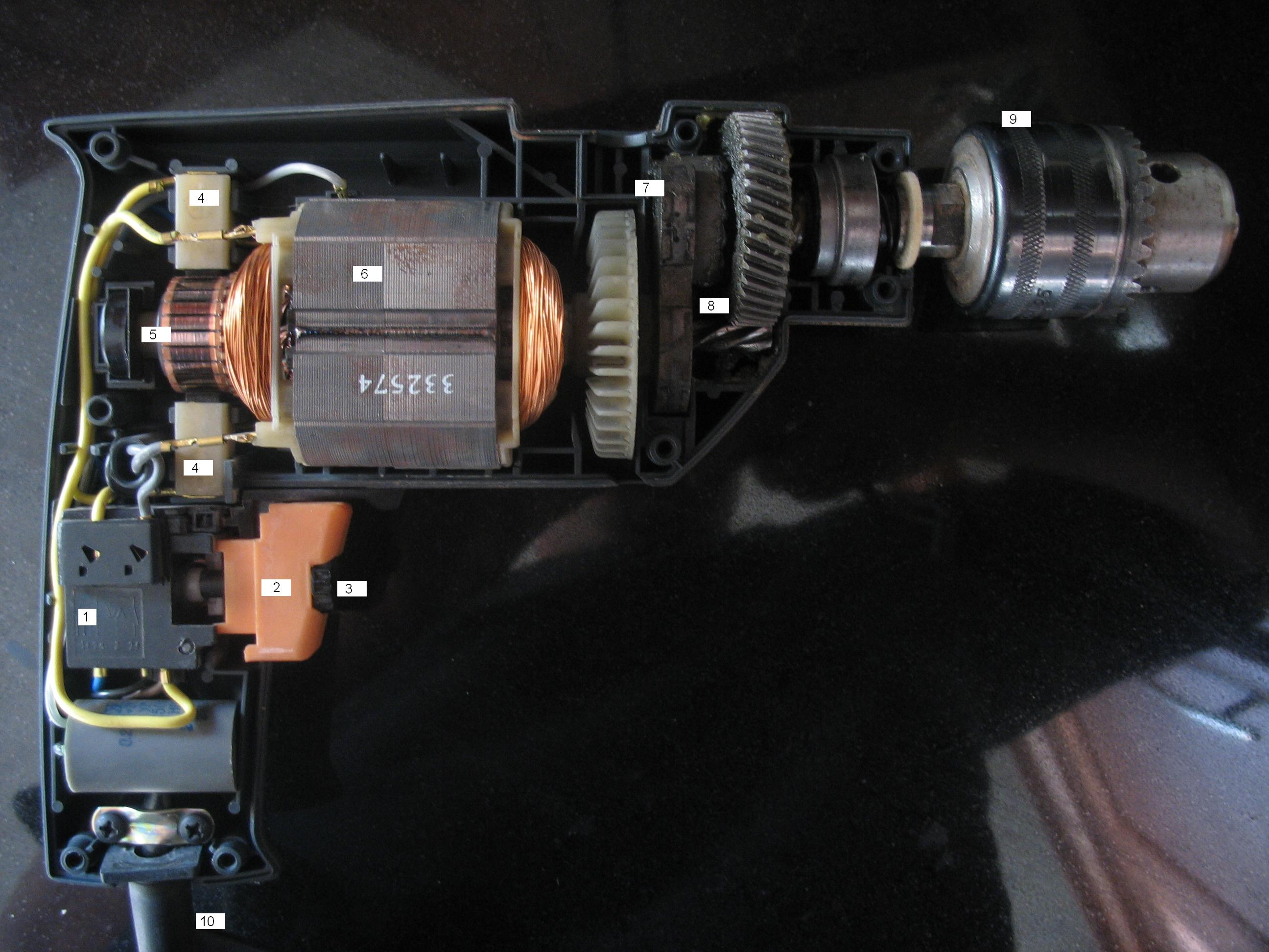 Inside of drill